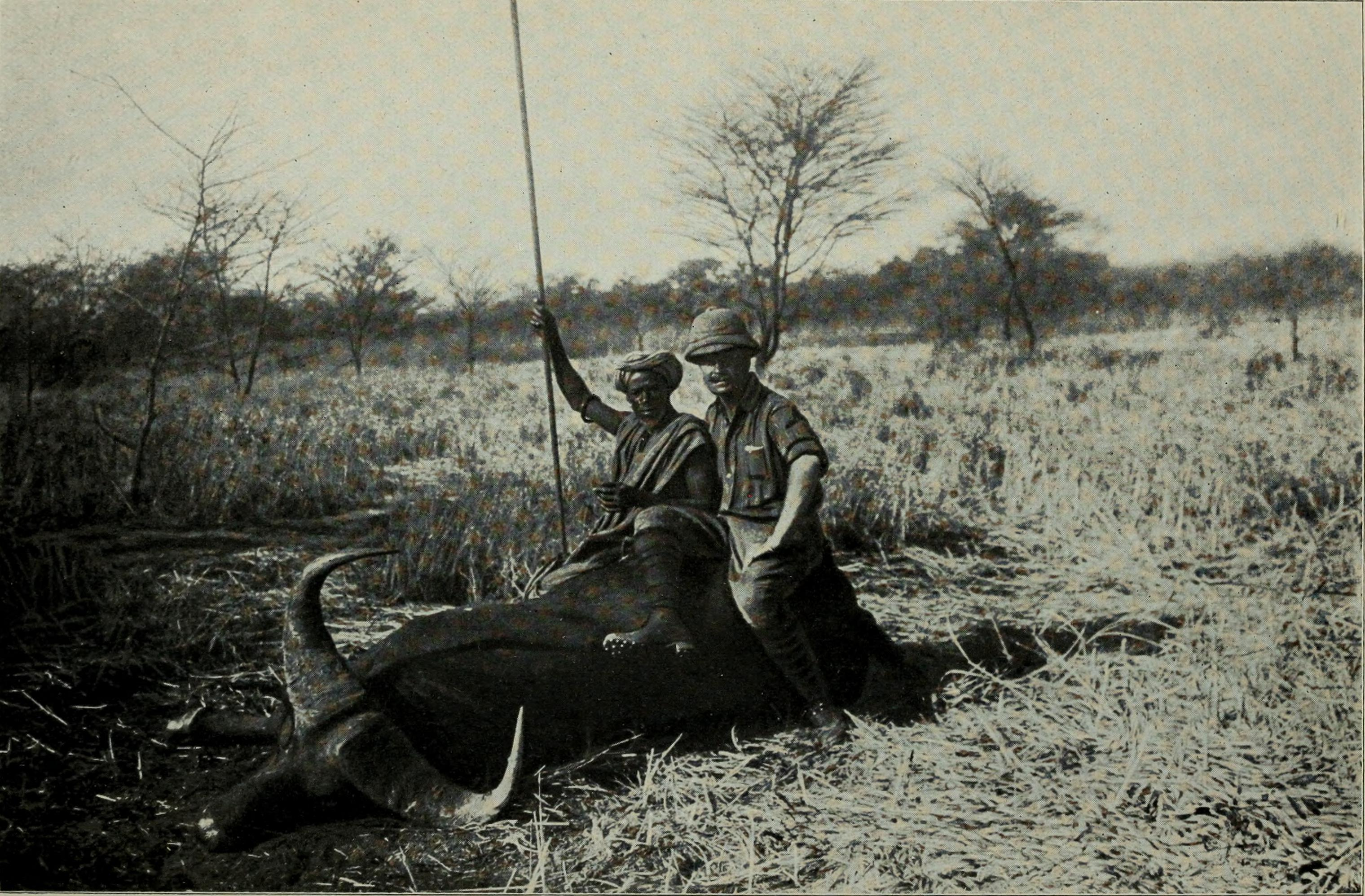 The Duke of Mecklenburg on the slain buffalo Title: From the Congo to the Niger and the Nile : an account of The German Central African expedition of 1910-1911 Year: 1913 (1910s) Authors: Adolf Friedrich, Duke of Mecklenburg-Schwerin, 1873-1969 Deutsche Zentral-Afrika-expedition, 1910-1911 Subjects: Publisher: London : Duckworth Text Appearing Before Image: 84. Dwelling of the Sultan Garuangs children. Text Appearing After Image: o TO 3-O C 5 a x cc IN BAGIRMI 93 even in the driest regions; they are regular visitors to the durra fields belonging to the natives. Hyenas howlpiteously at night. Of these there are two varieties:one spotted and the other striped; I obtained twolive specimens of the latter kind, and they endeavouredto fortify themselves for the long journey to theirnew European home by imbibing prodigious quantitiesof milk. The lions had followed the big game to the plains, and the elephants which are usually verynumerous had betaken themselves to the marshy Marigots, eleven days march away, the frequentApril showers not having sufficed to replenish theirdrinking places. A disagreeable phenomenon is a small fly living inthe mountains, which although not vicious, settles incrowds on human beings, and gives rise to considerableinflammation by crawling into ones eyes. In Bellila,where these flies are specially plentiful, cases of con-junctivitis and even blindness are common. One ofHaberers boys, who was